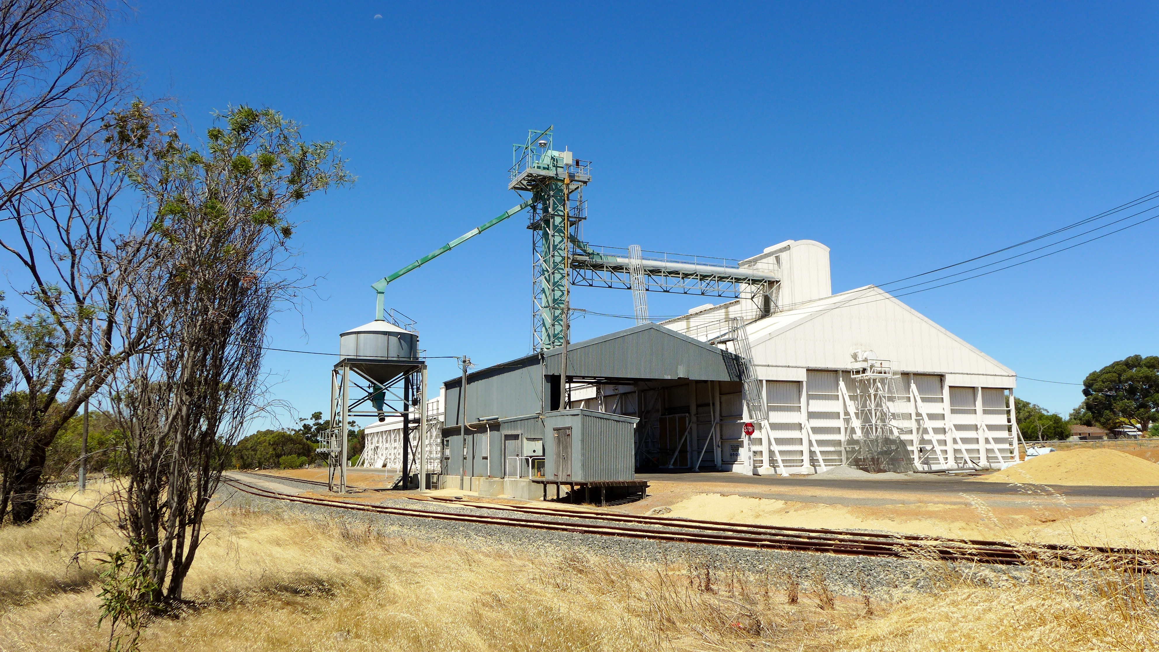 View of the CBH grain receival point at Wickepin, Western Australia.